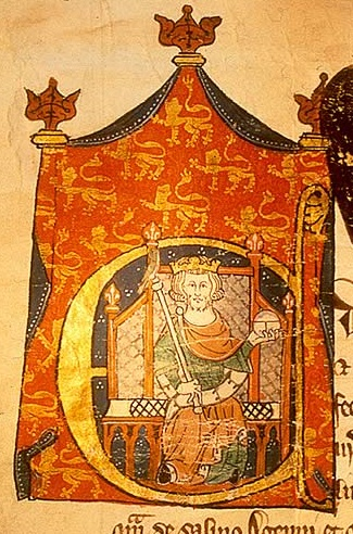 Edward I of England